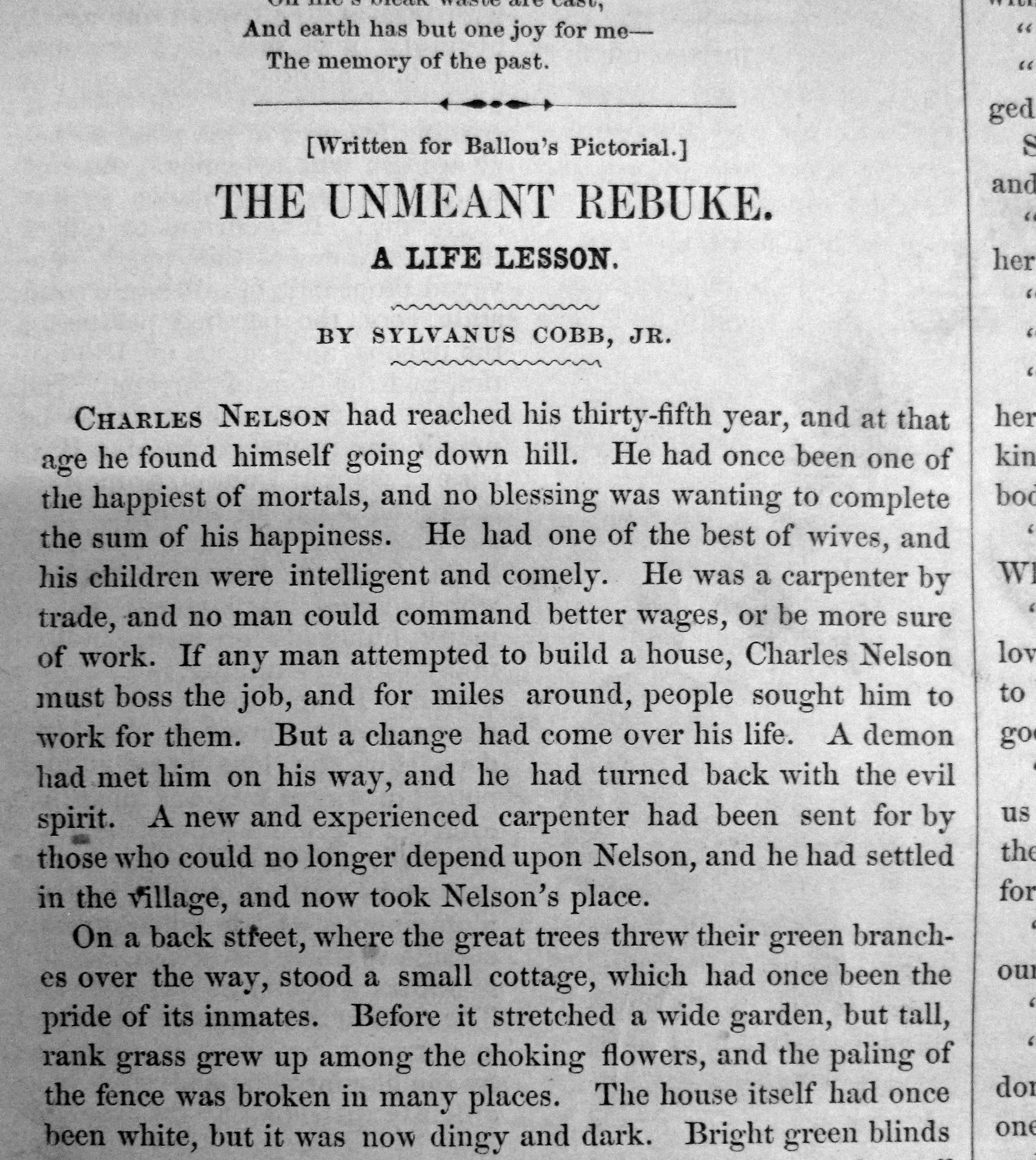 Excerpt from The Unmeant Rebuke by Sylvanus Cobb, in: Ballou's Pictorial, ca.1855-1857